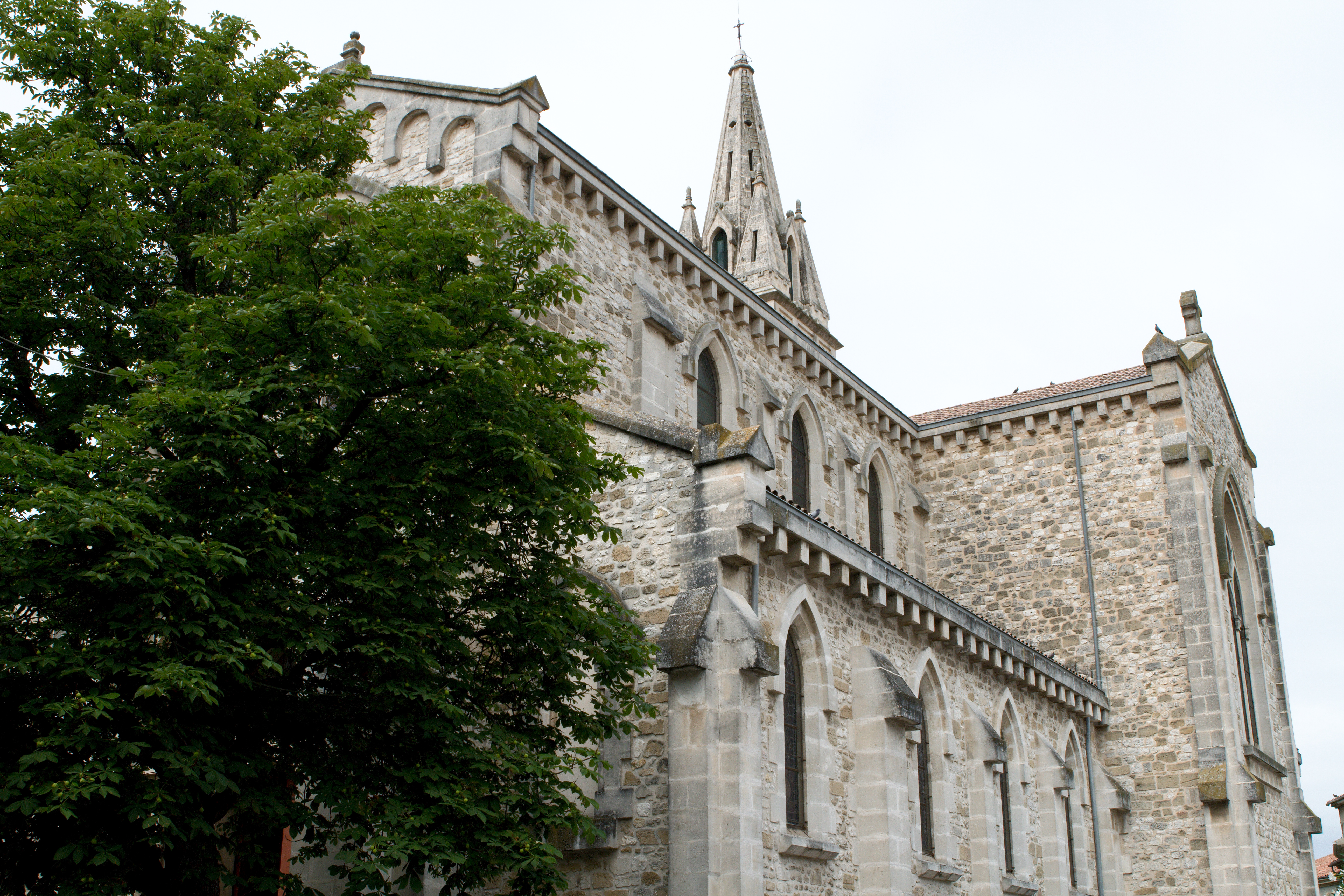 Church Notre-Dame de Vie in Saint-Cannat, Bouches-du-Rhône (France).